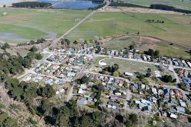 Pines Beach north of the Waimak River.